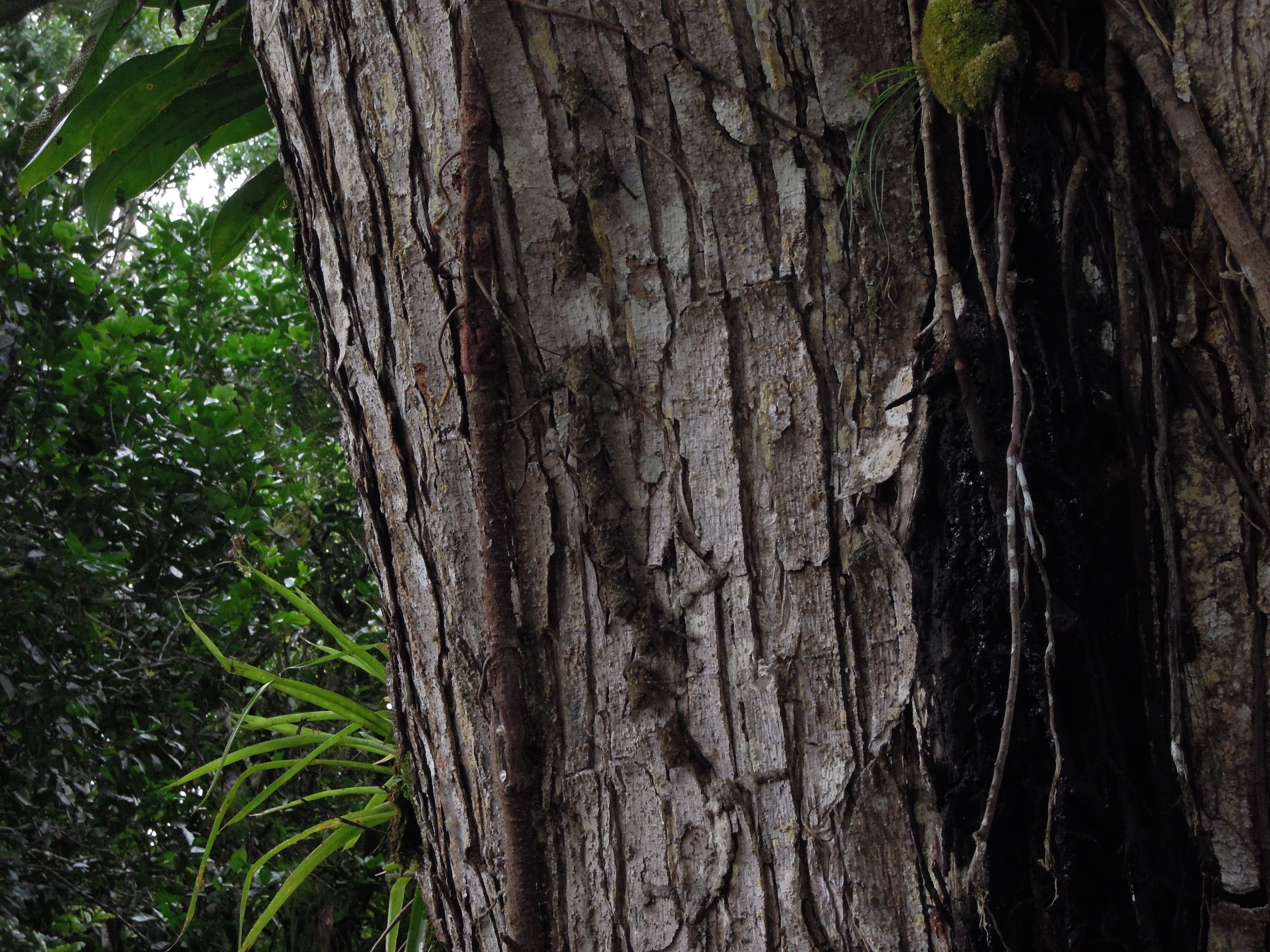 Small bats resting in the bark of a tree in Caño Negro Wildlife Reserve